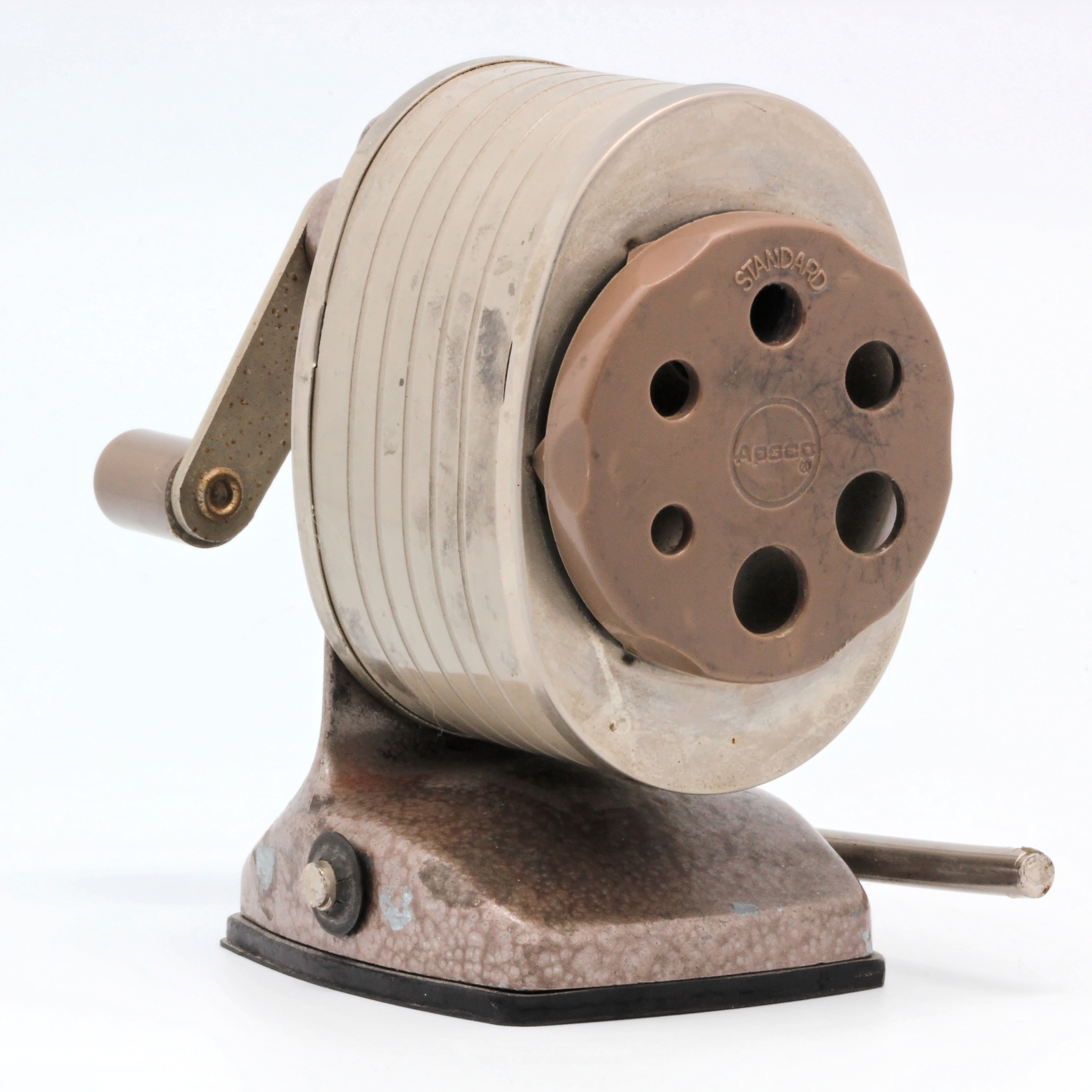 hand-cranked planetary sharpener mounted on suction cup.